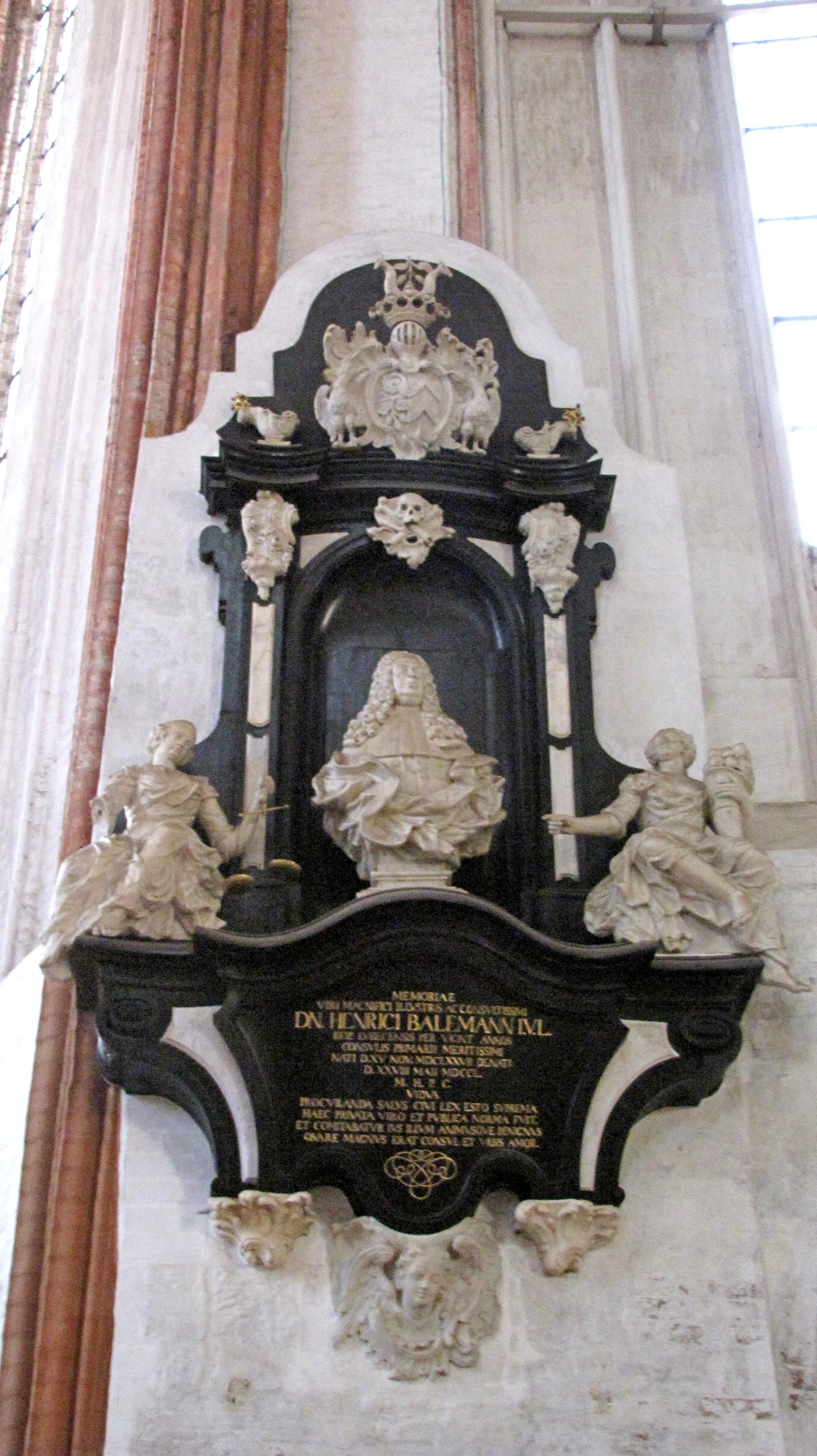 Epitaph for mayor Heinrich Balemann (1677-1750) in St. Mary's church in Lübeck